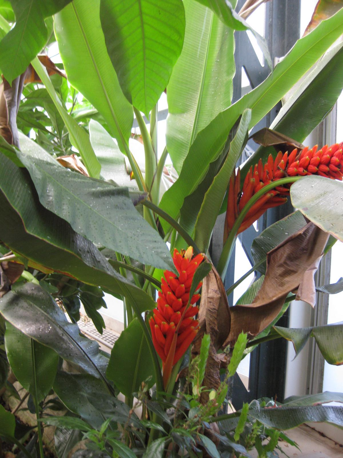 Musa sp photographed at Huntington Gardens (Los Angeles, California) in August